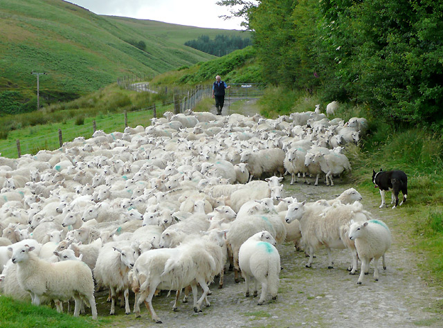 Shepherding at Ty'n Cornel, Cwm Doethie, Ceredigion. John was bringing in this flock ready for shearing the next day. The ewes were about to be separated from the lambs, and enclosed in the large shed nearby. 1423470